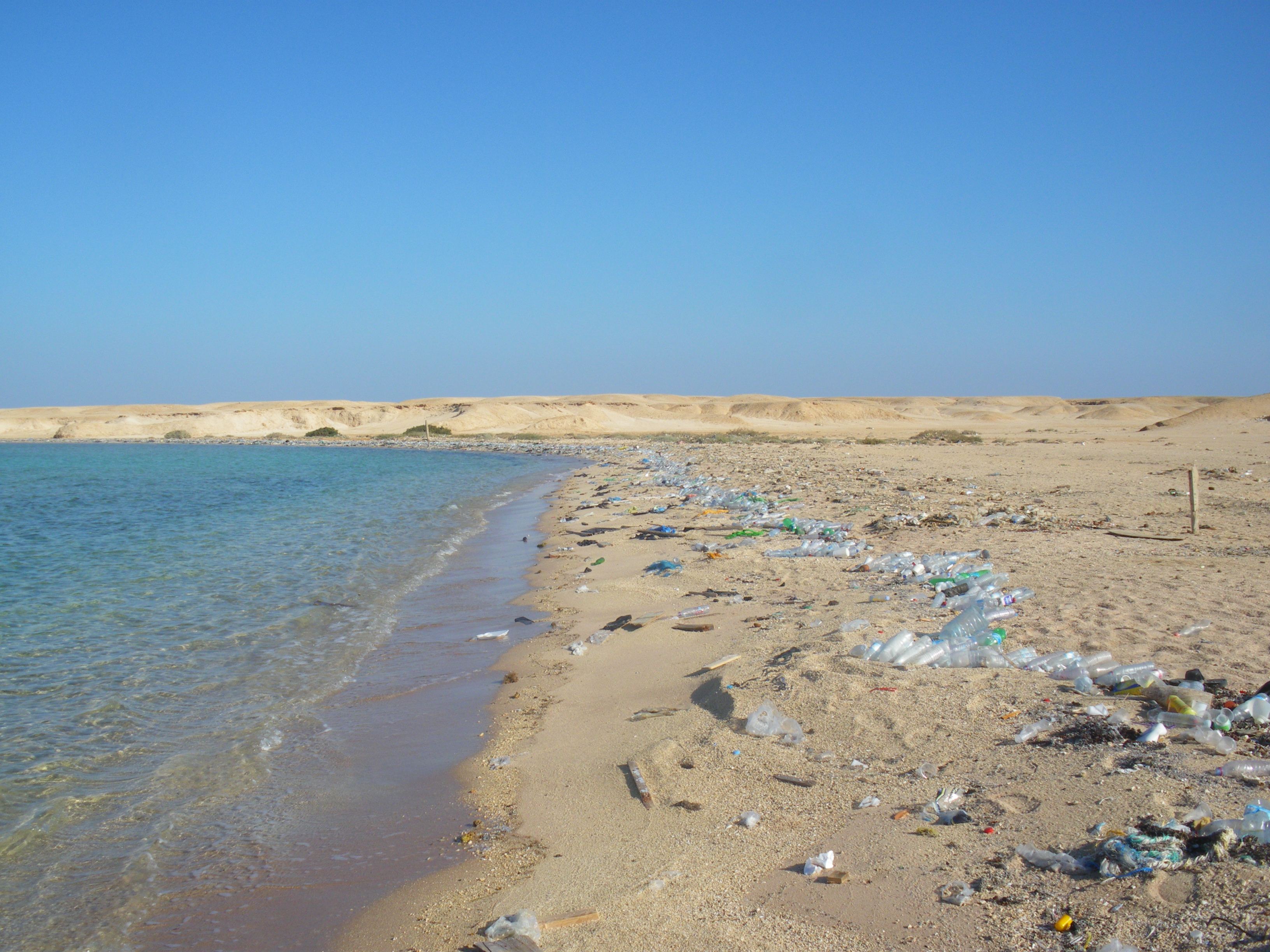 Polluted Beach on the Red Sea in Sharm el-Naga, Port Safaga, Egypt]